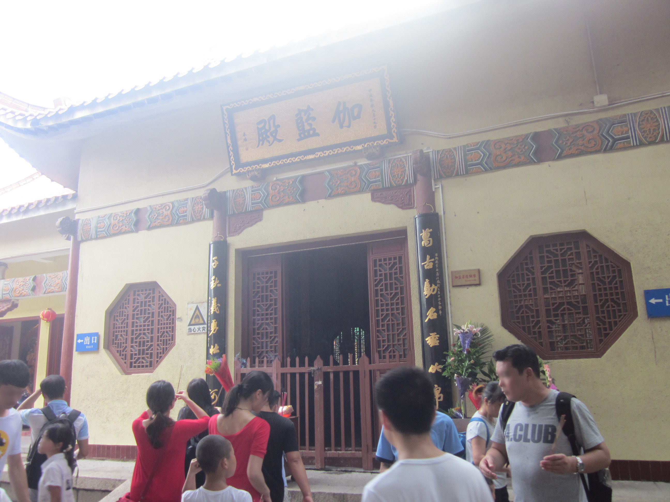 The Hall of Shichidō Garan at Hongfa Temple, in Shenzhen, Guangdong, China. Hongfa Temple (弘法寺), is a Buddhist temple located in Bao'an District of Shenzhen city, south China's Guangdong province.